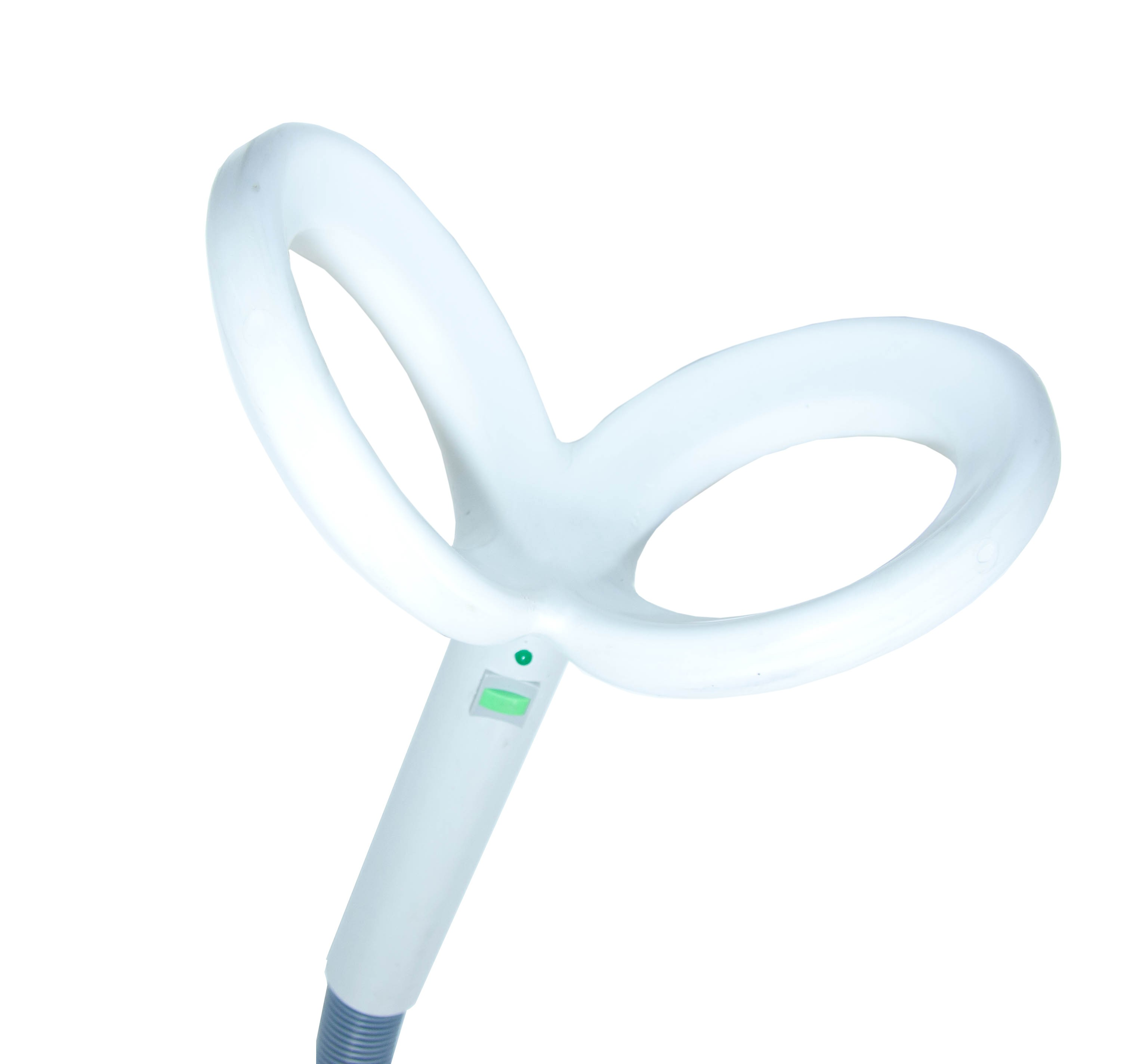 Идуктор «восьмерка» для транскраниальной магнитной стимуяции